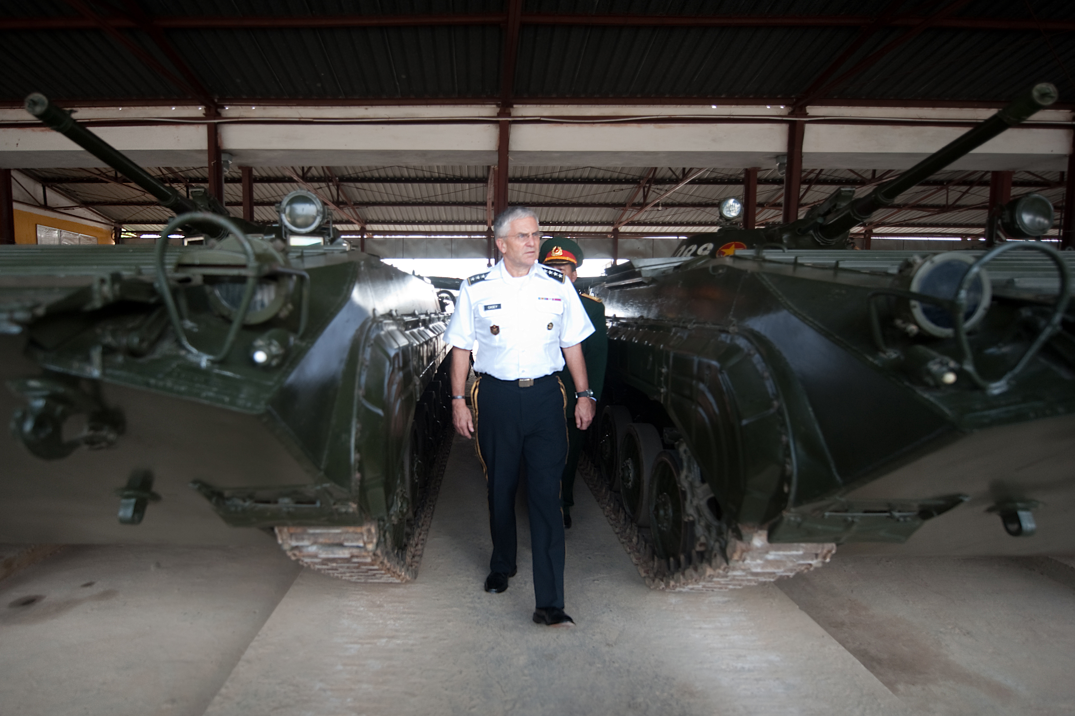 Senior Vietnamese army officers with the 308th Infantry Division show tanks to Chief of Staff of the U.S. Army Gen. George W. Casey Jr., center, during Casey's visit to Hanoi, Vietnam, November 22nd, 2010. This visit marked the 15th anniversary of the normalization of United States-Vietnam diplomatic relations.